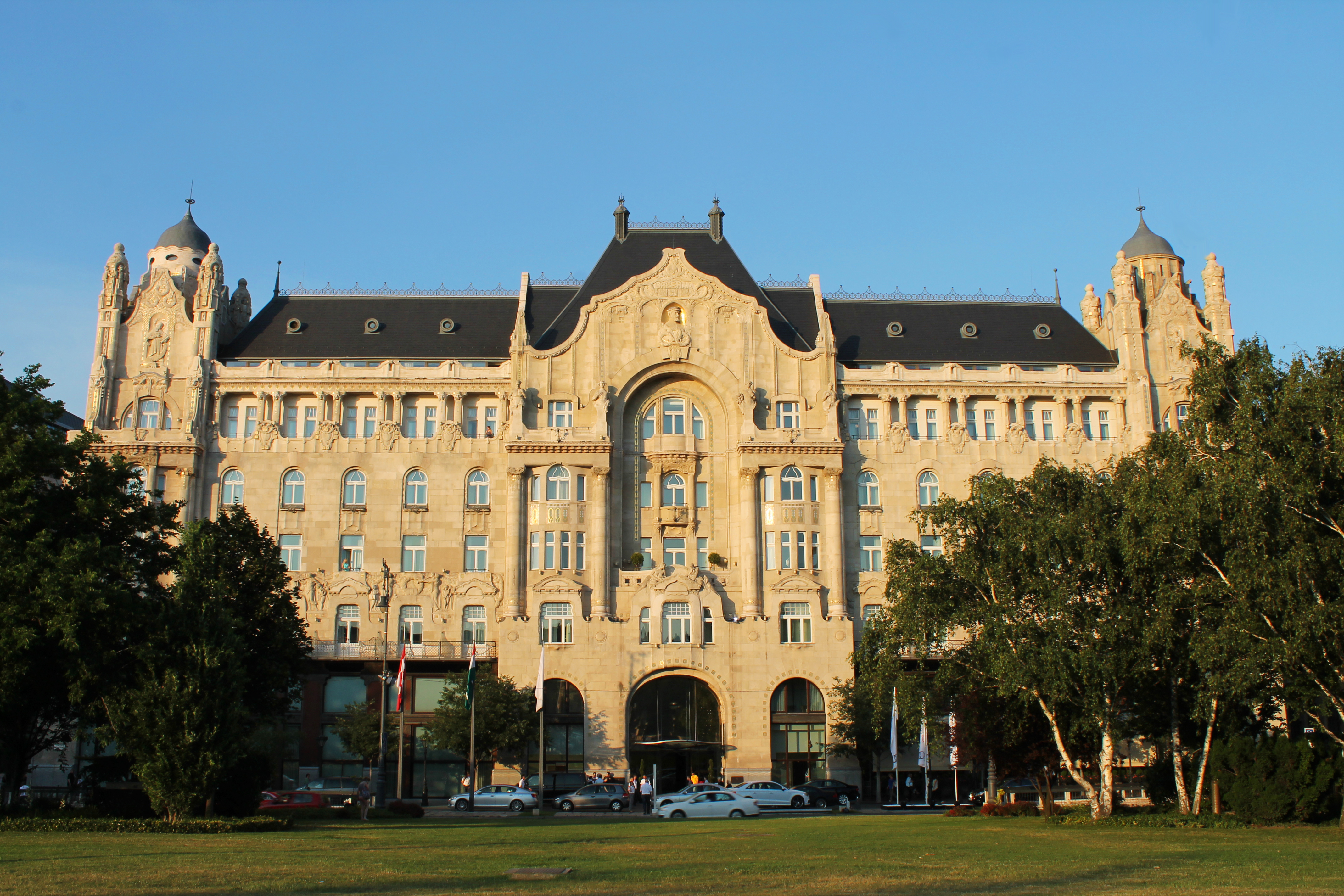 Gresham Palace by Zsigmond Quittner and József Vágó, 1907